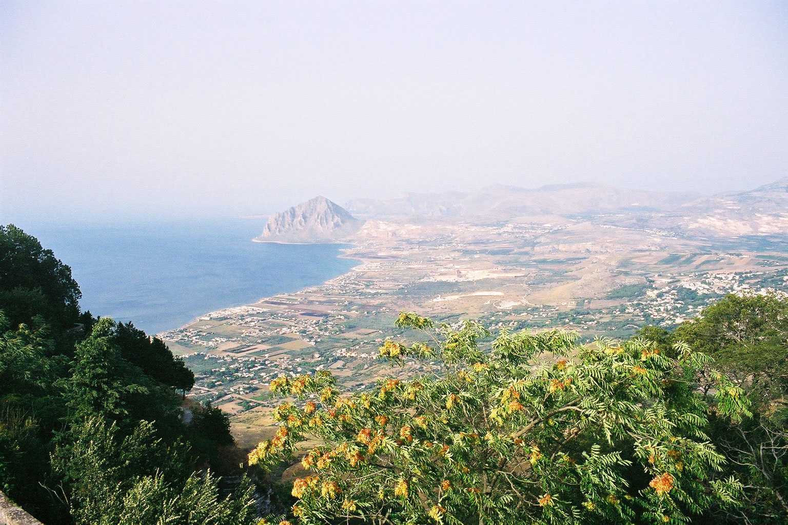 Erice View from Erice to Monte Cofano